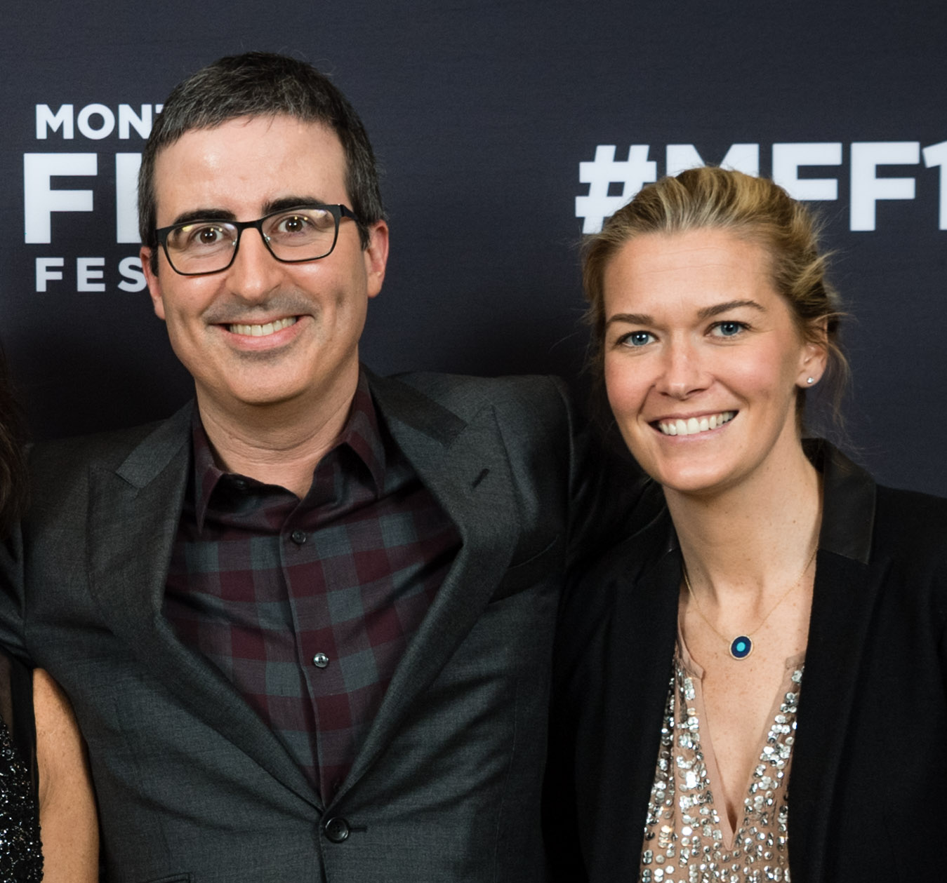 photo by “Neil Grabowsky / Montclair Film Festival”